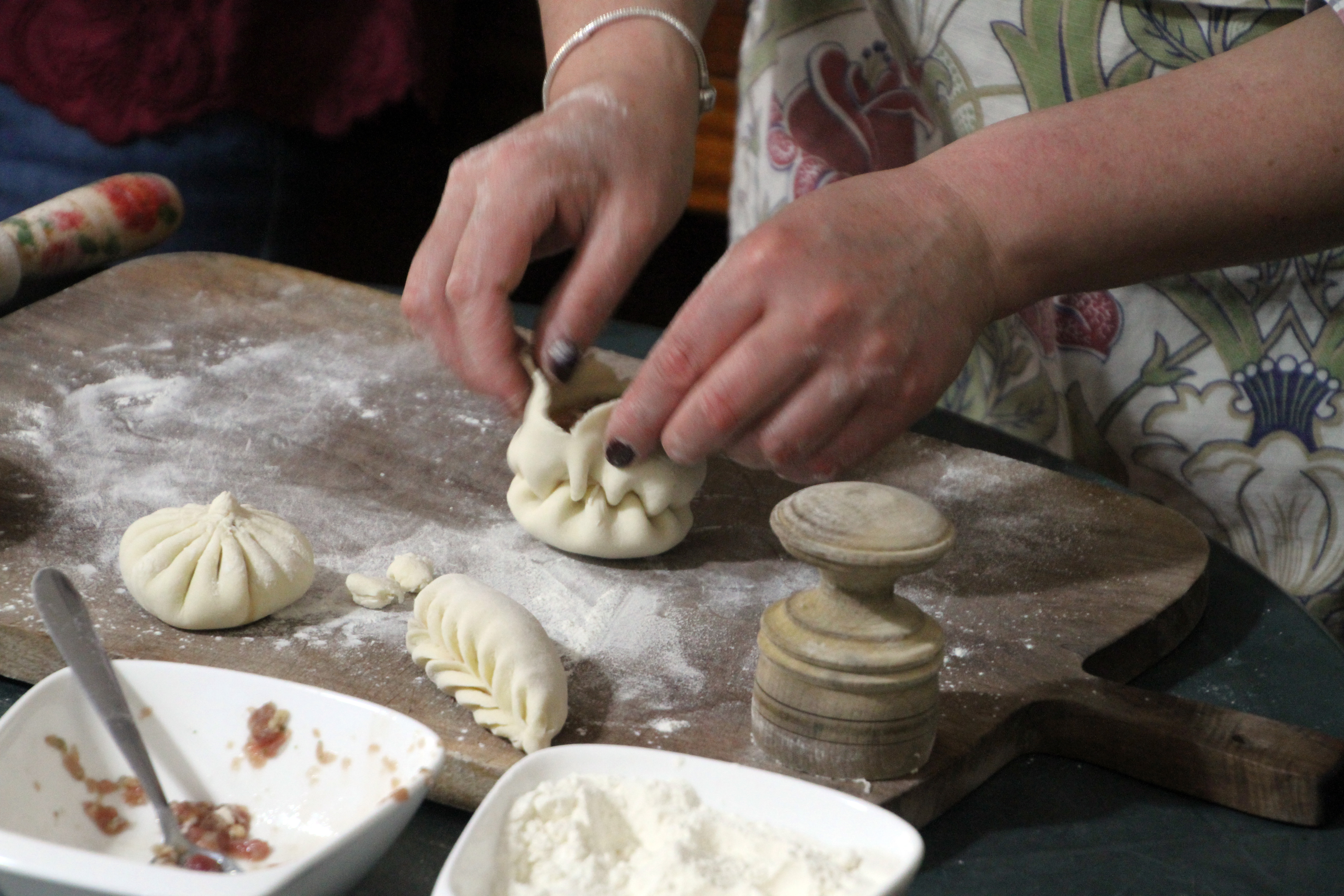 Forming Khinkali in Stepantsminda in Georgia